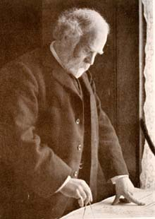 Photograph of Sir John Murray at work, around 1899